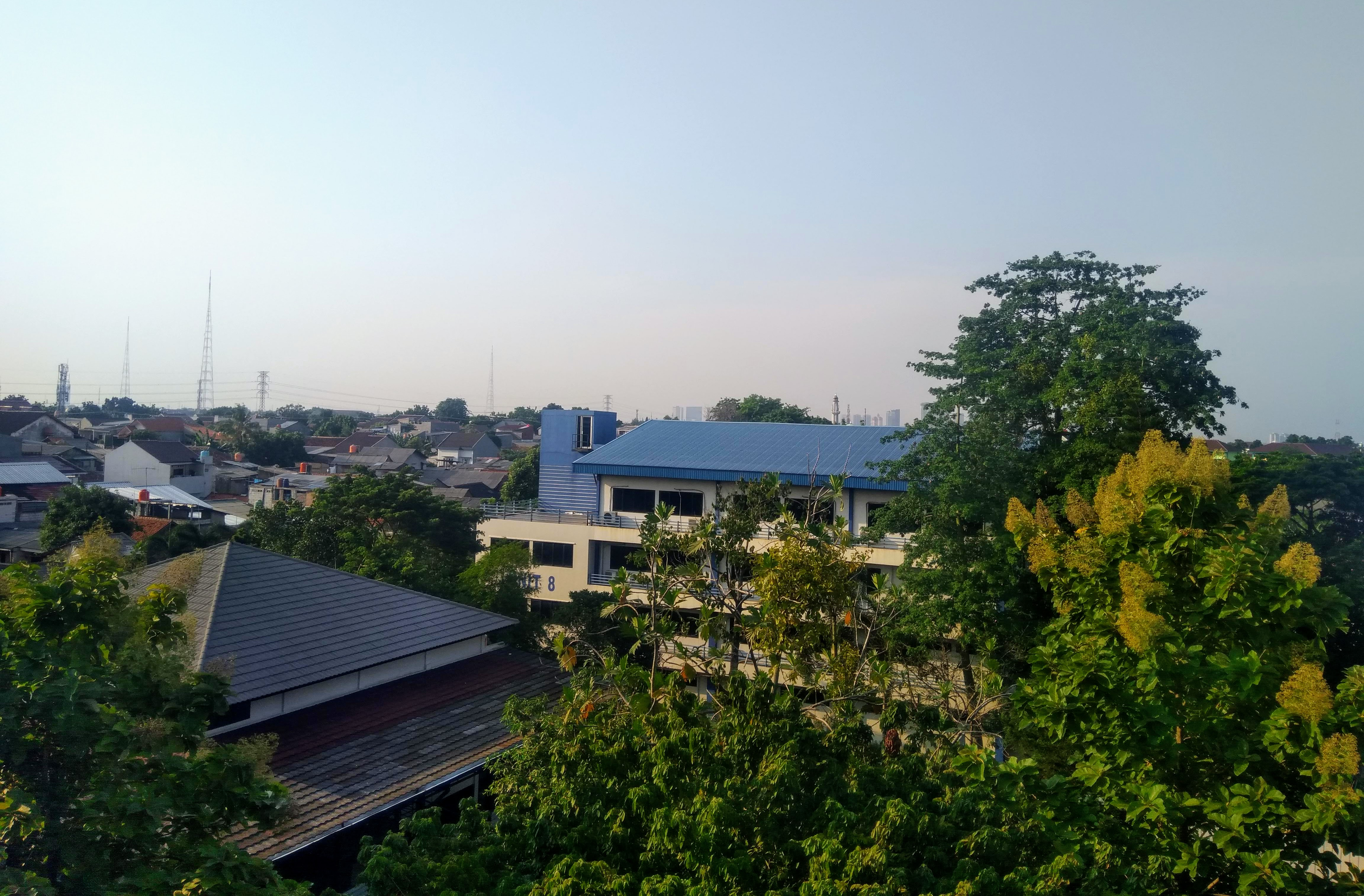 Here is Budi Luhur University Unit 8 building, which is obscured by some trees.